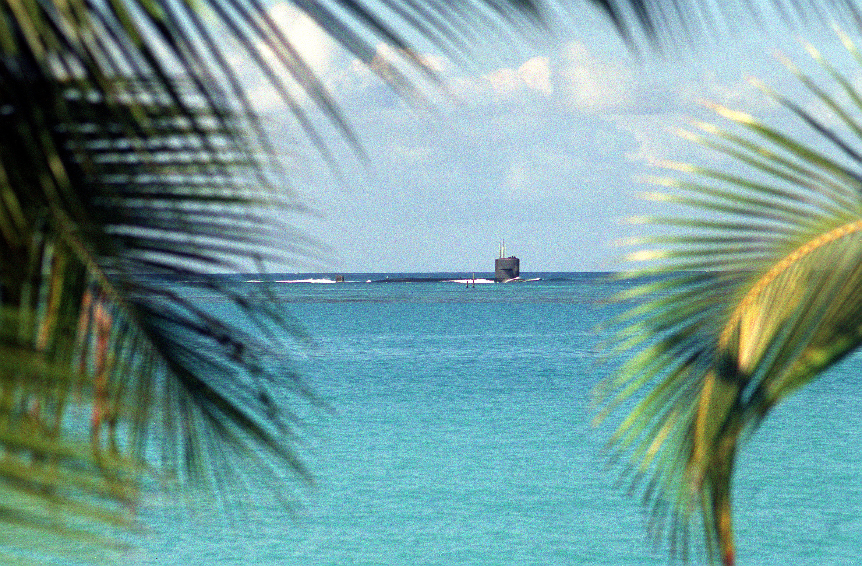 A starboard view of the nuclearpowered attack submarine USS QUEENFISH (SSN-651) underway near Naval Station, Pearl Harbor, Hawaii.